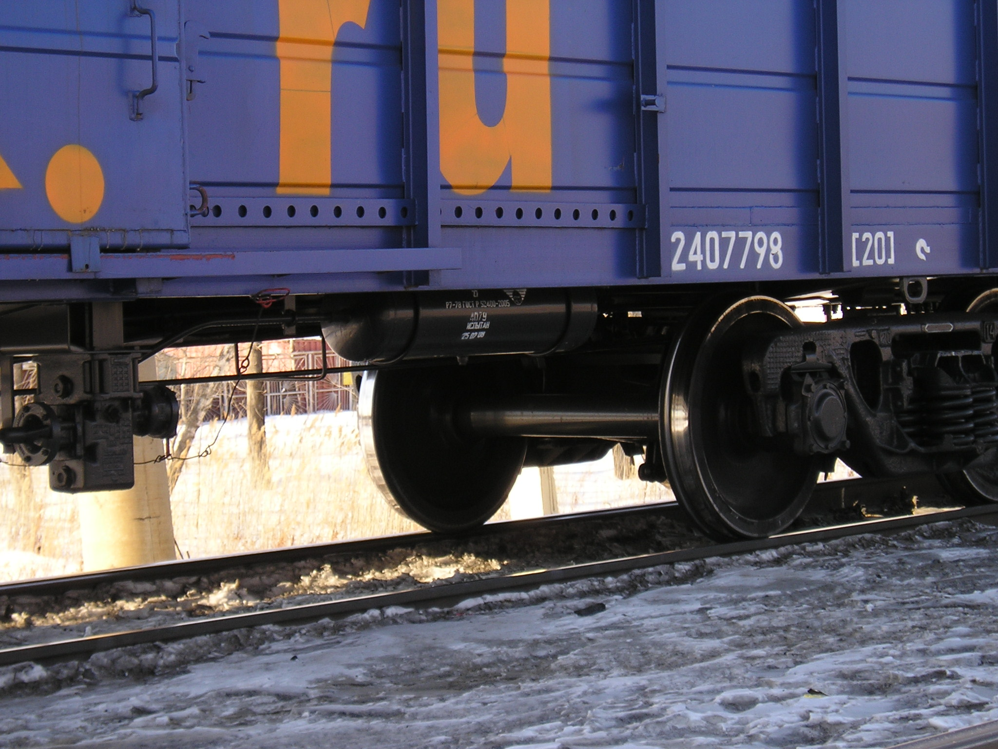 air distributor and brake cylinder on goods wagon